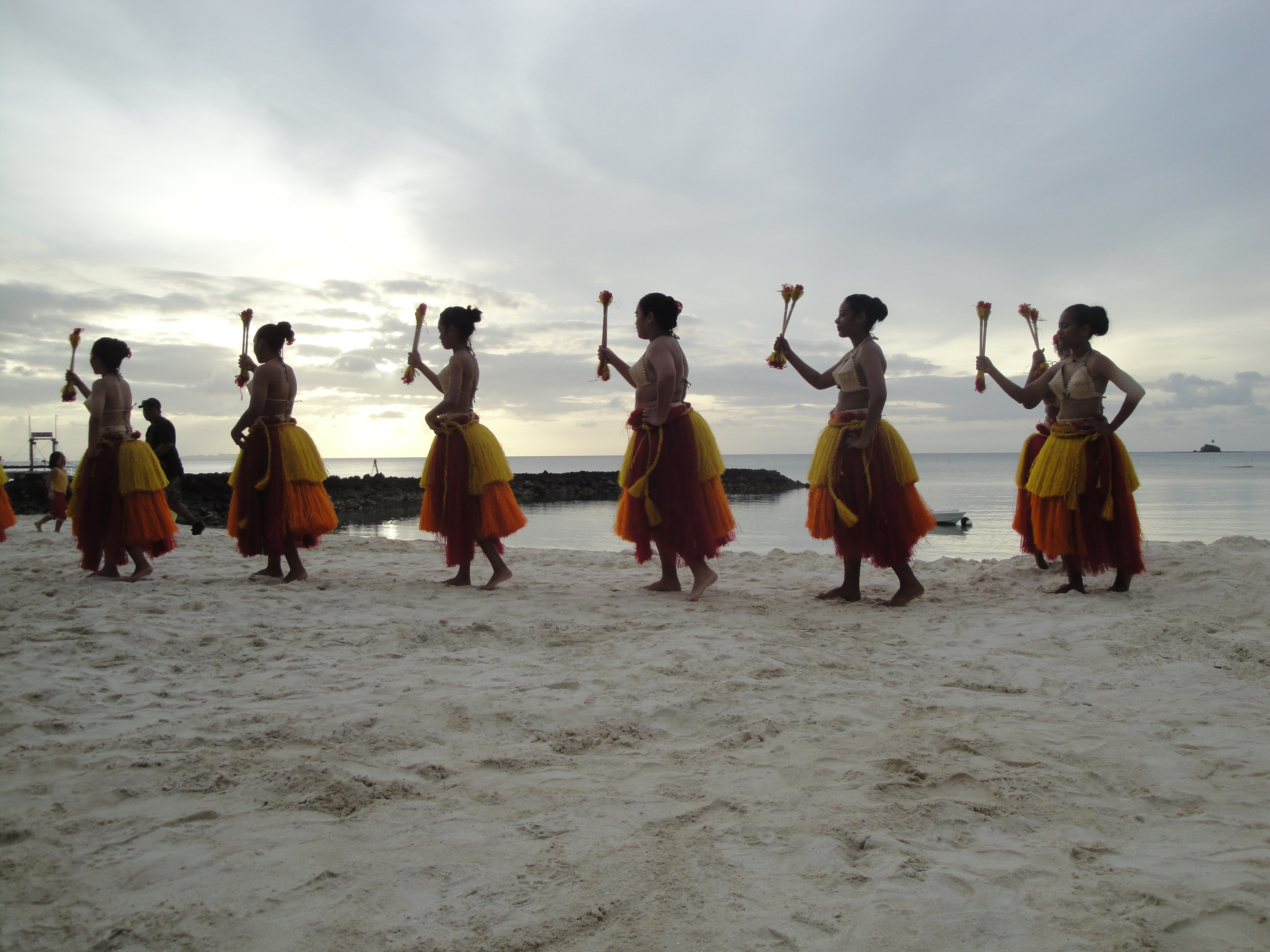 Palauan females dancing.